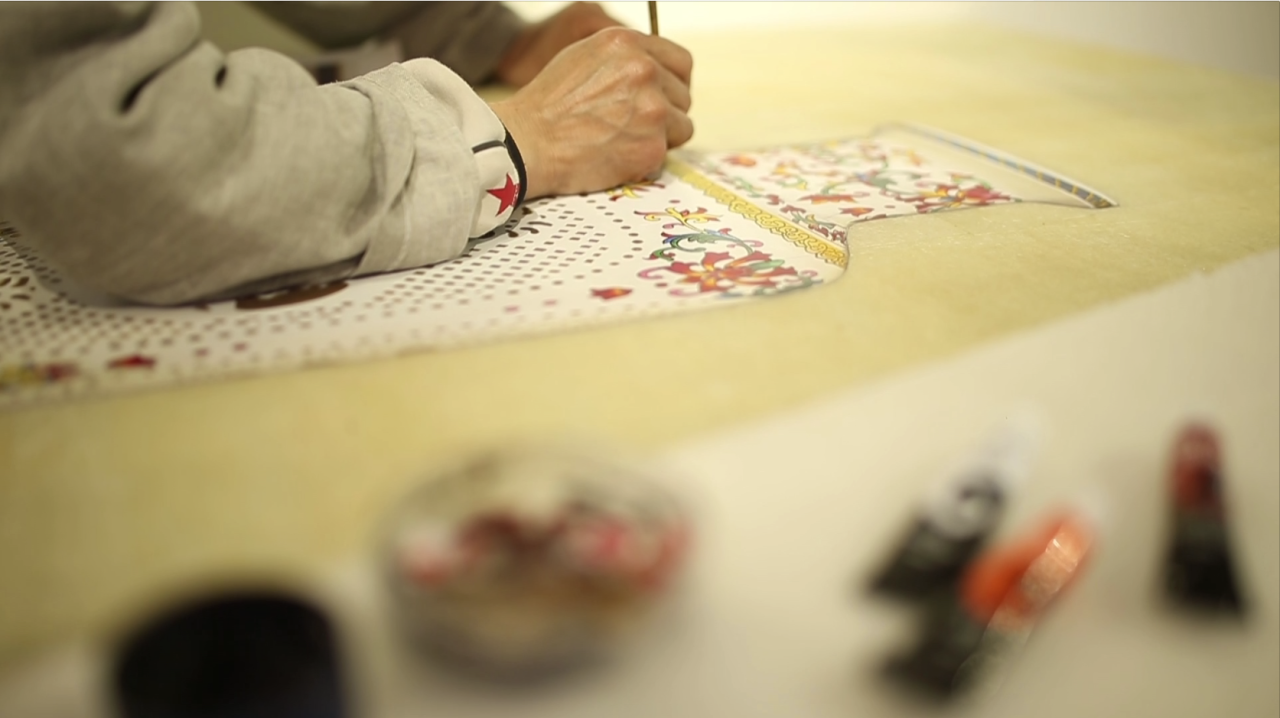 Galleryd zochilj baihdaa avsan zurag.